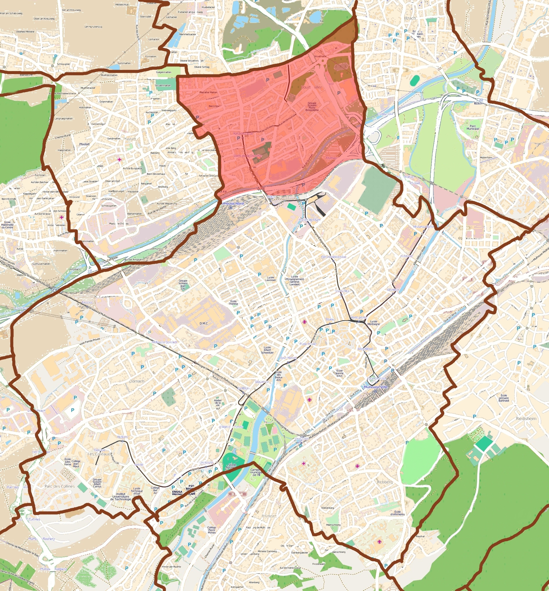 Localization of the Bourtzwiller neighbourhood in Mulhouse. This map may be incomplete, and may contain errors. Don't rely solely on it for navigation.